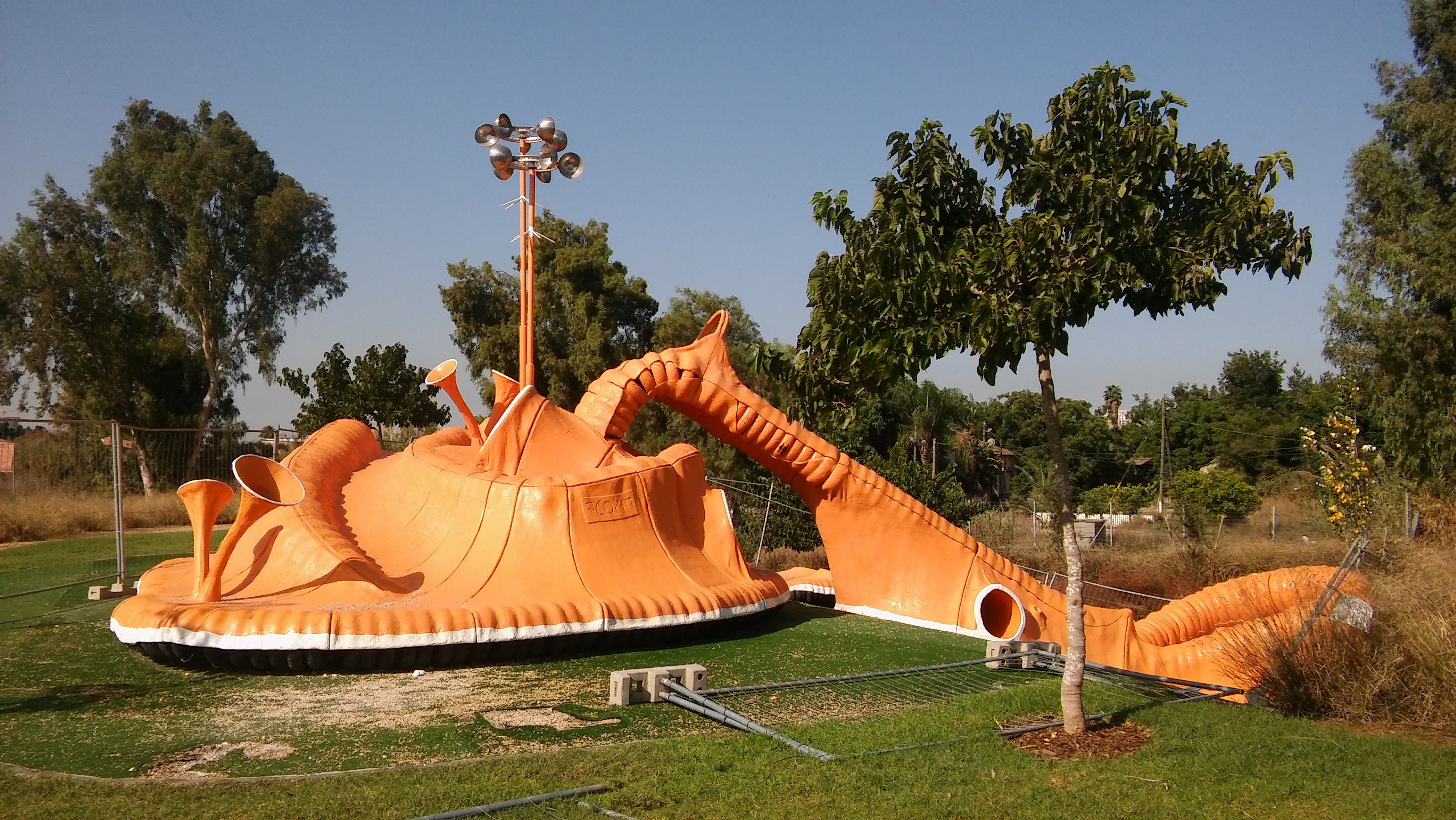 Ariel Sharon Park